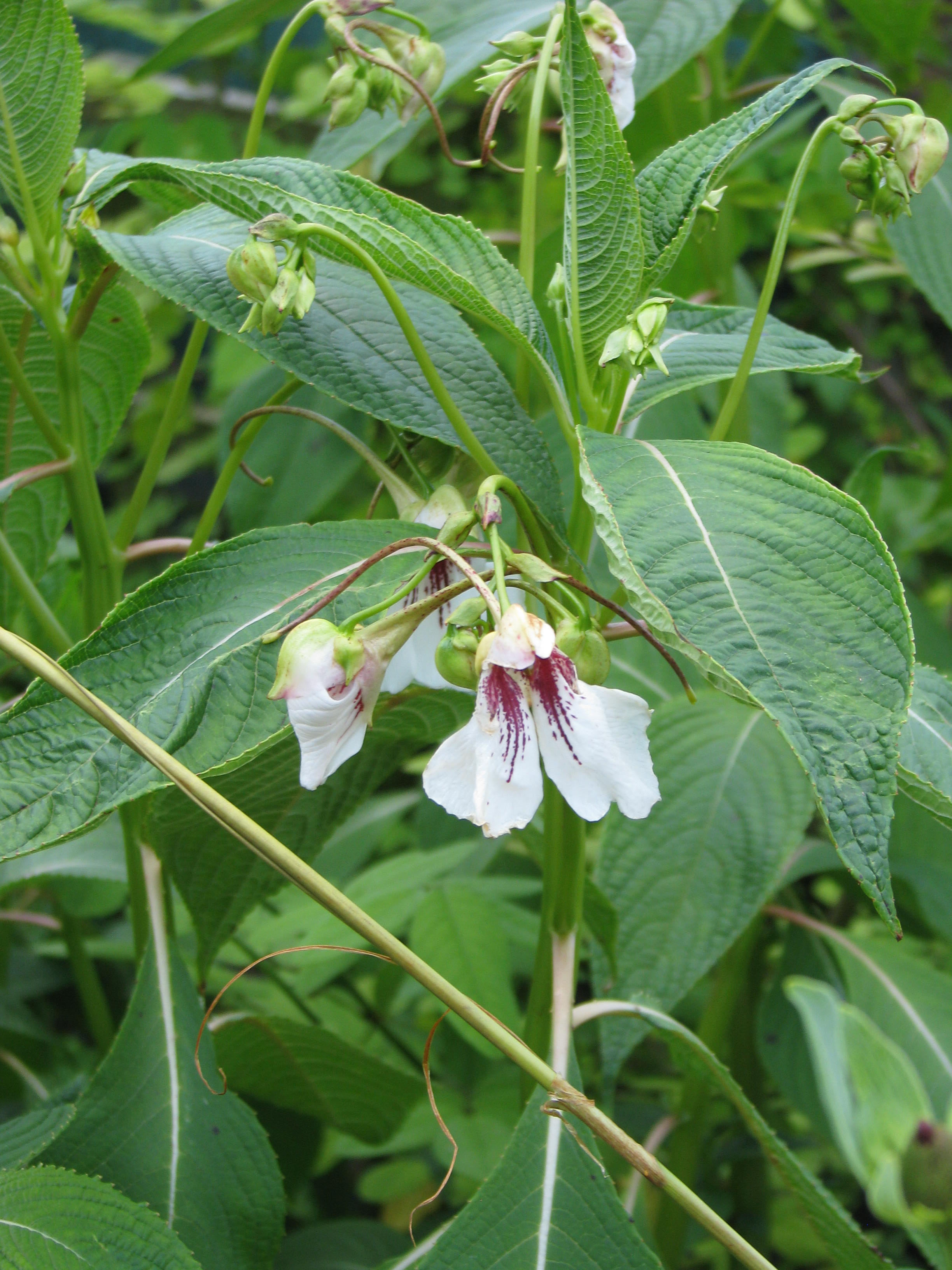 Impatiens tinctoria